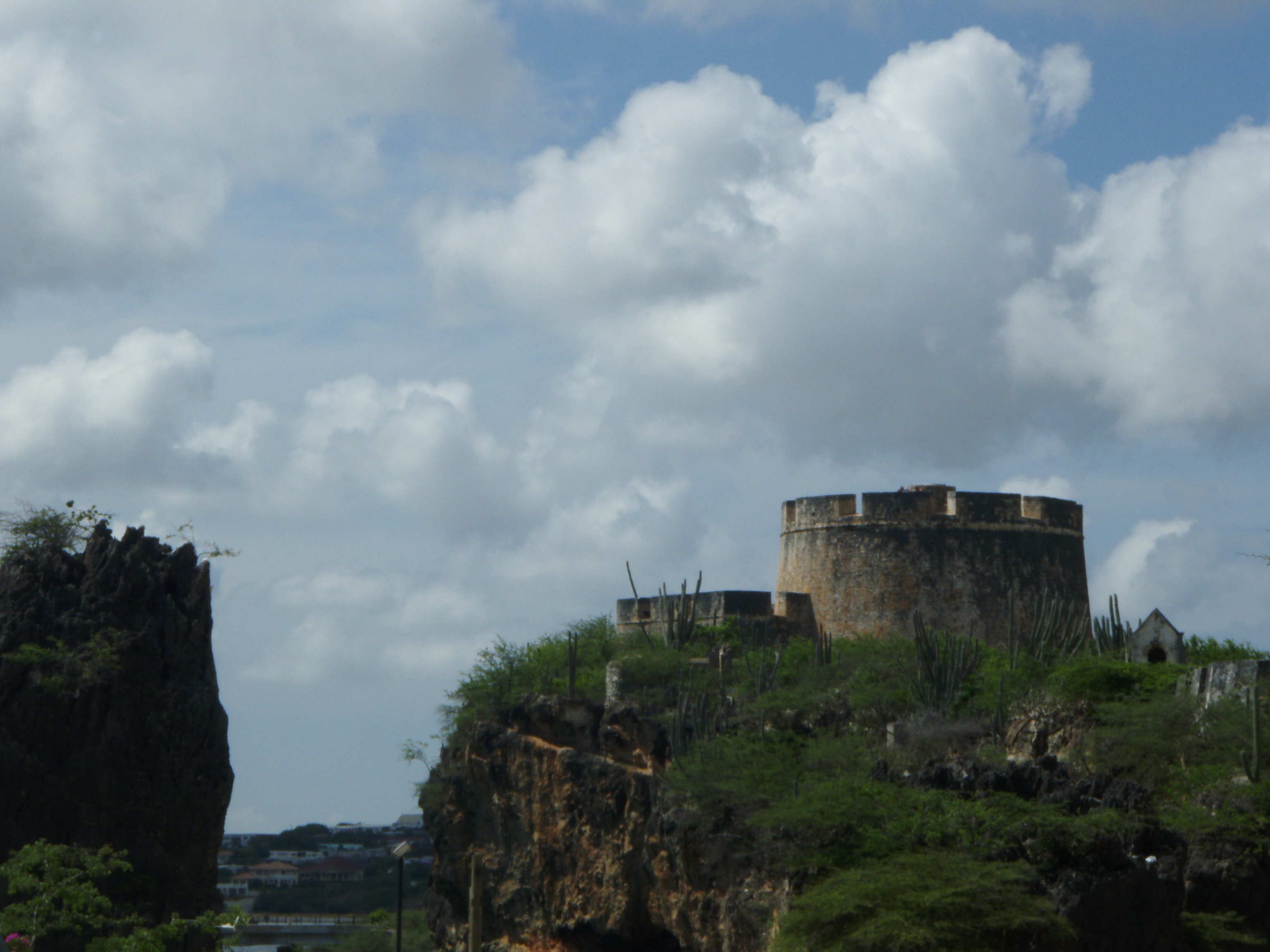 Fort Beekenburg, Curaçao